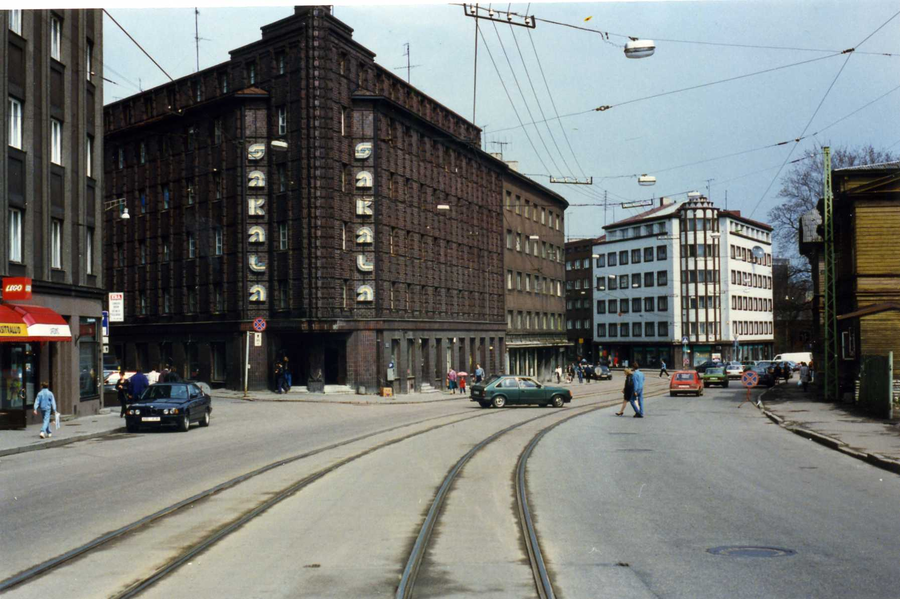 Corner of Pärnu highway and Roosikrantsi street. In the background, white building at Pärnu highway - Pärnu Maantee - and Sakala street., Pärnu Maantee nr 27. The brick building is numbered Paernu Mnt 36 (23 on Wikipedia - perhaps an error) / Roosikrantsi 23. A modern google photo is linked here The Sakala residential building now houses the Versace shop! A good thread on Tallinn architecture, with photos, including these buildings around nrs 323-326 is Skyscraper City by @tin_Can The Estonian architect of the Sakala building is Robert Natus (1890-1950) of German descent. He was born in Viljandi Russia (as was, later Estonia) , and died in Bad Wilsnack, Germany. He was also responsible for the more famous Art Deco City Hall in Tallinn of 1932. The similarity with the Chile Haus in Hamburg is striking, using the same coloured bricks and styling by Johann Friedrich (Fritz) Höger who also was responsible for the Garbáty-Zigarettenfabrik in Berlin-Pankow